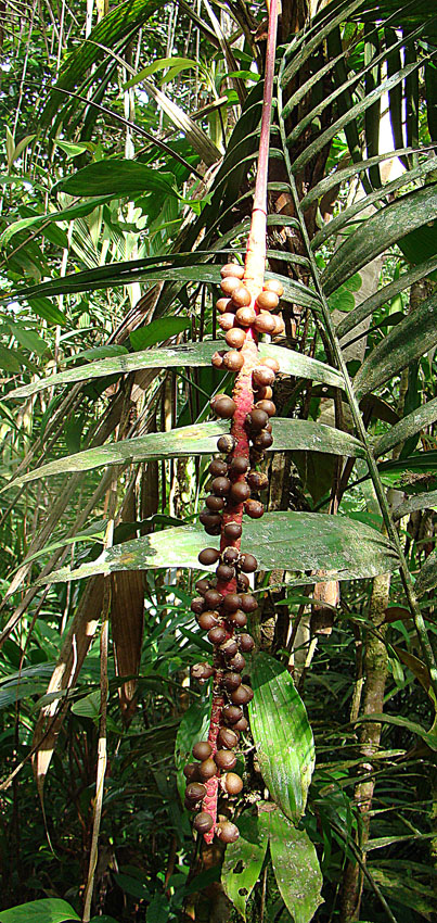 Photo from the border of Kuna Yali territory, northeastern Panama. Native from there south to Ecuador. In context at